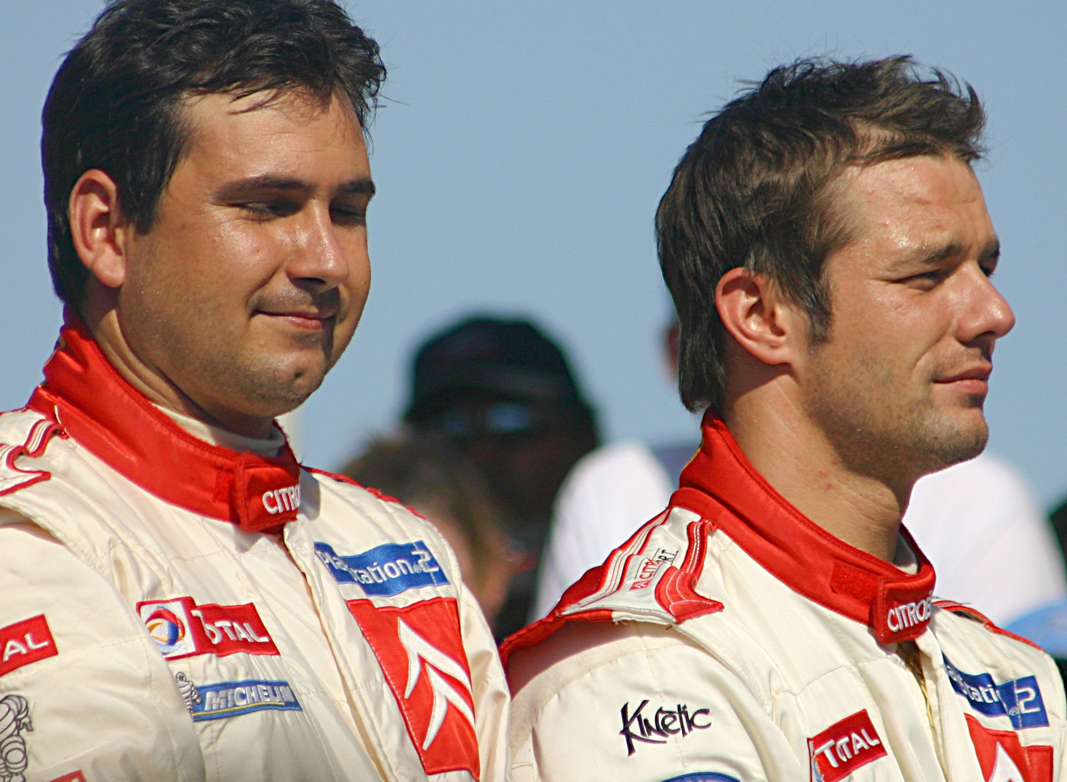 Sébastien Loeb (on the right) and Daniel Elena at the 2005 Cyprus Rally.